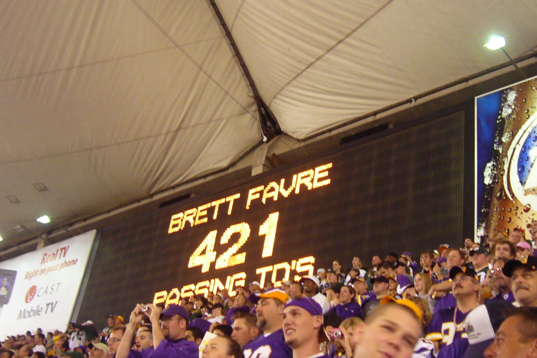 Created by user and released into the public domain.